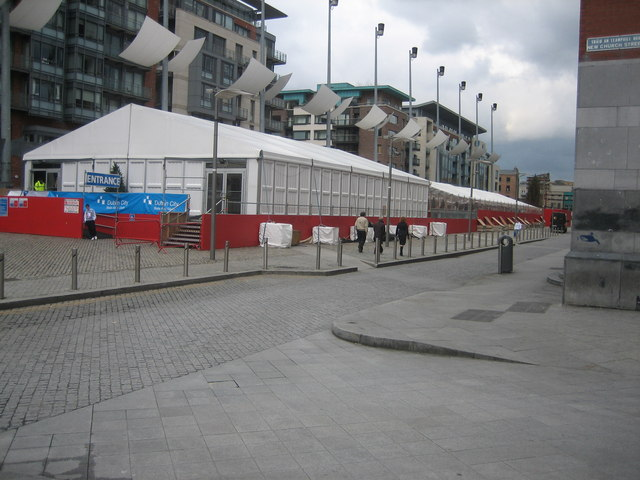 Ice Rink, Smithfield Just for Christmas